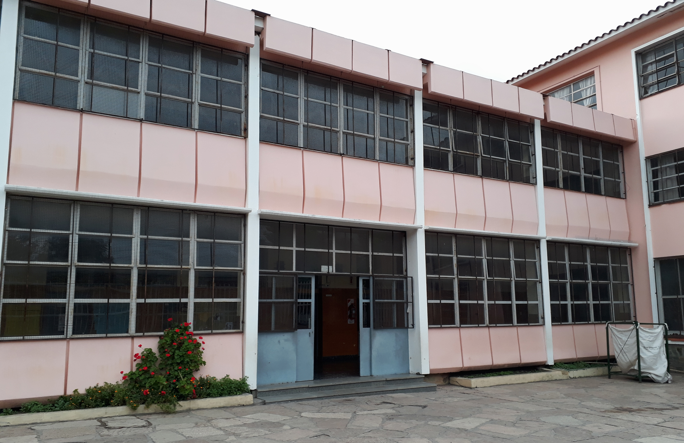 Nuestra Señora de Lourdes. College. Cordoba